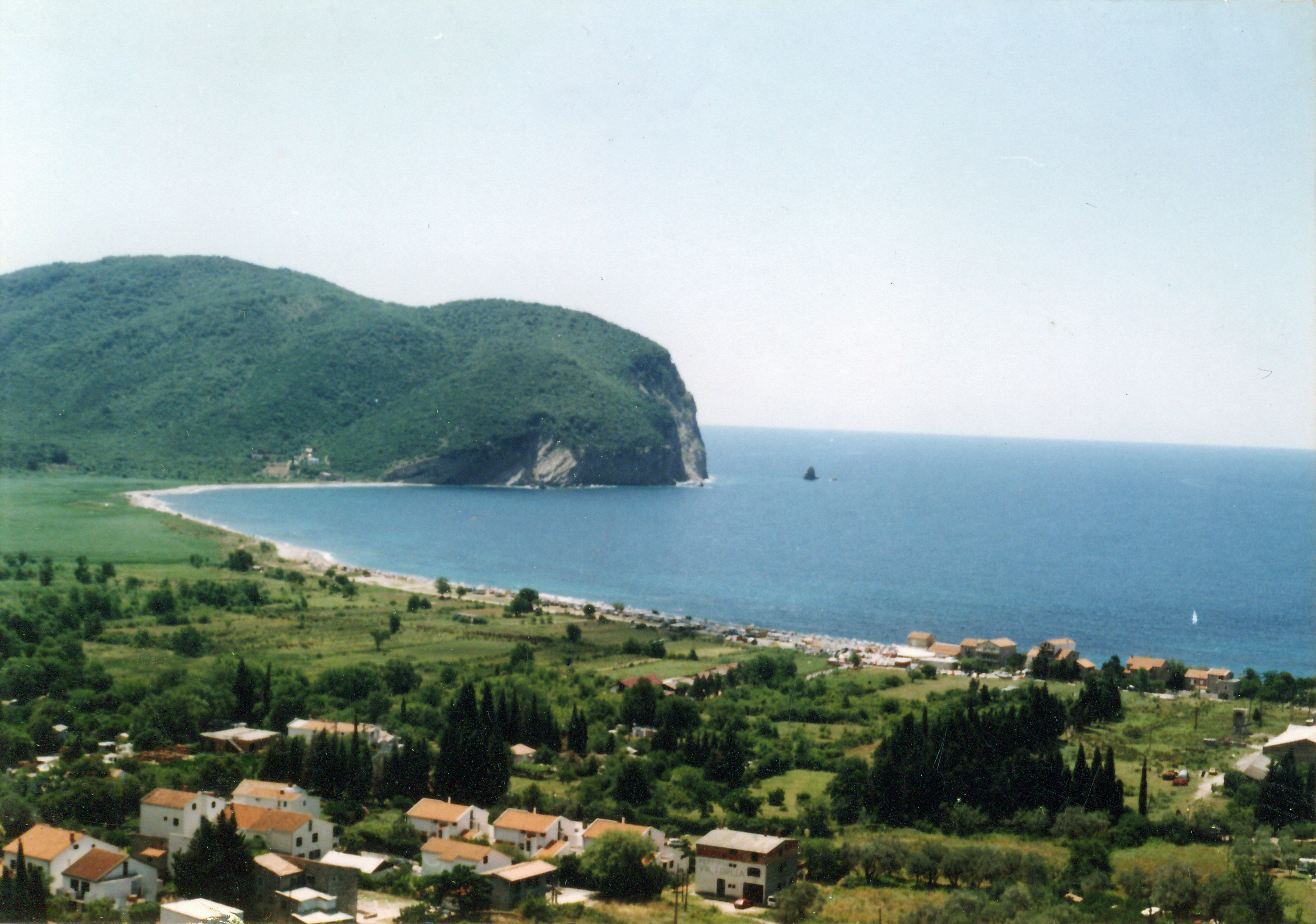 Buljarica, a coastal village in the municipality of Budva, Montenegro (mid 90's)